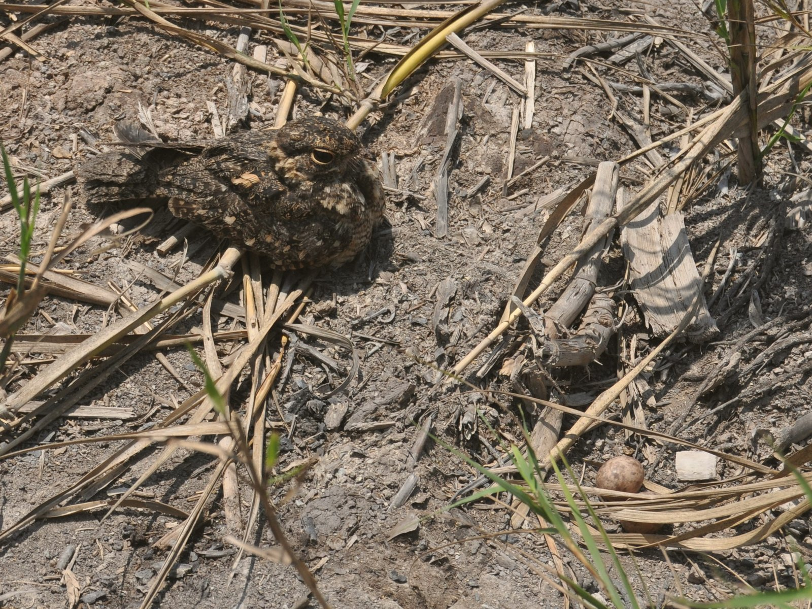 Savannah Nightjar (Caprimulgus affinis) female, near its nest --lower right-- on the ground. From South Sumatra, Indonesia